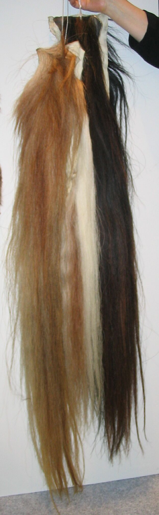 Horse tails